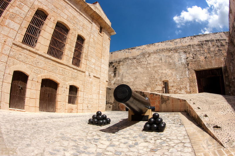 Inside the El Morro castle in Havana, Cuba